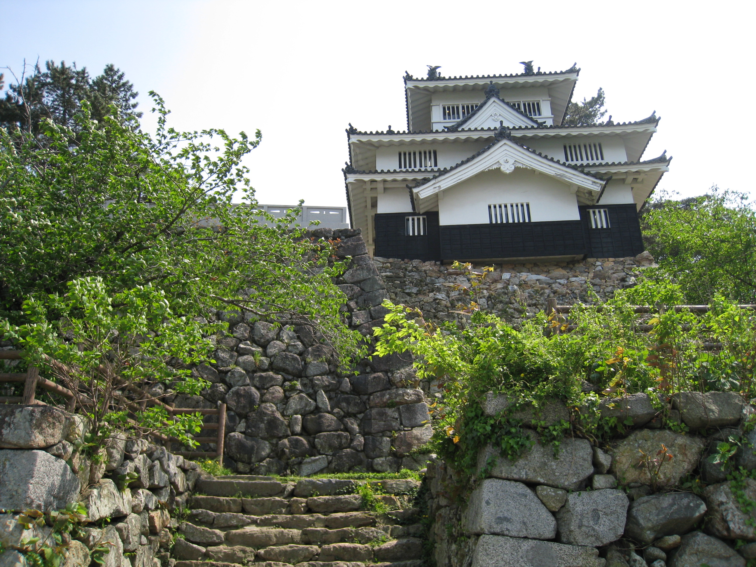 Yoshida Castle (吉田城), located at Imahashicho, Toyohashi, Aichi, Japan